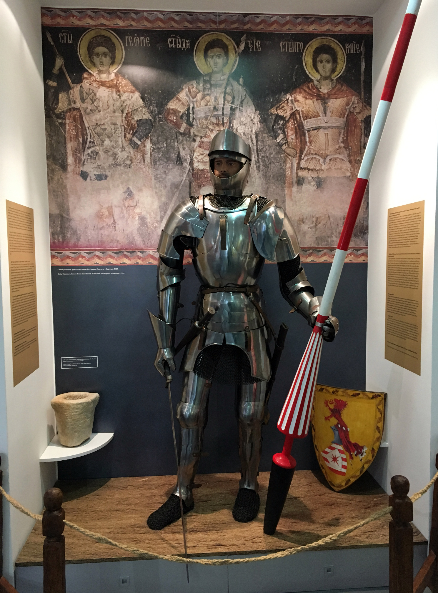 Armor of a Serbian knight from the 15th century, the city museum of Leskovac Српски (ћирилица): Оклоп српског витеза из петнаестог столећа, градски музеј у Лесковцу